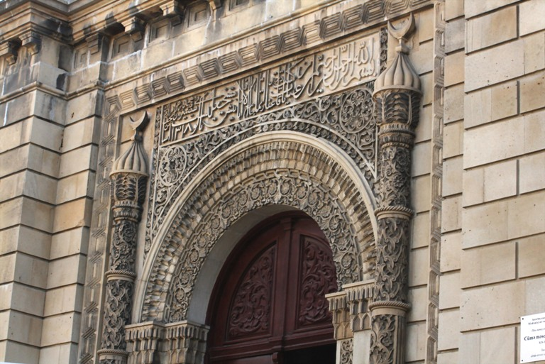 baku(azerbaijan)_old_city-juma_mosque_at_old_city - 12th century